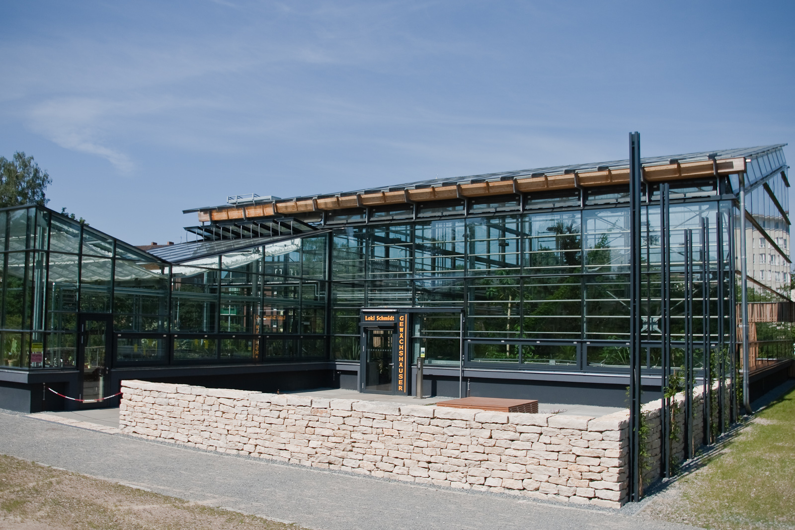 greenhouse "Loki Schmidt" in botanical garden of university of Rostock with butterfly roof (left of the picture) and monopitch roof.